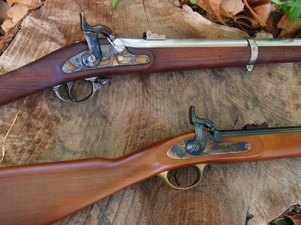 Close up of 63 Springfield and Enfield actions